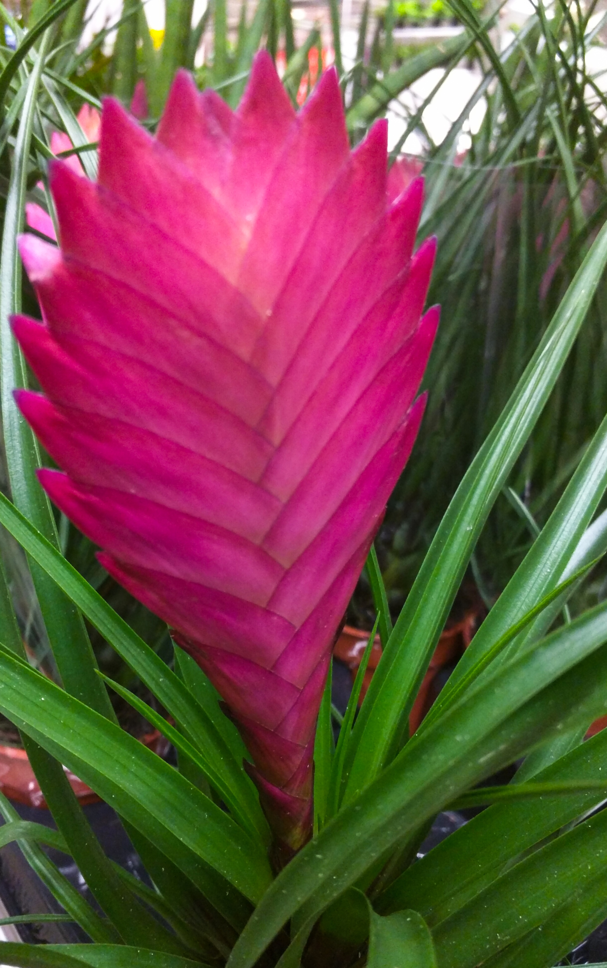 tillandsia cyanea